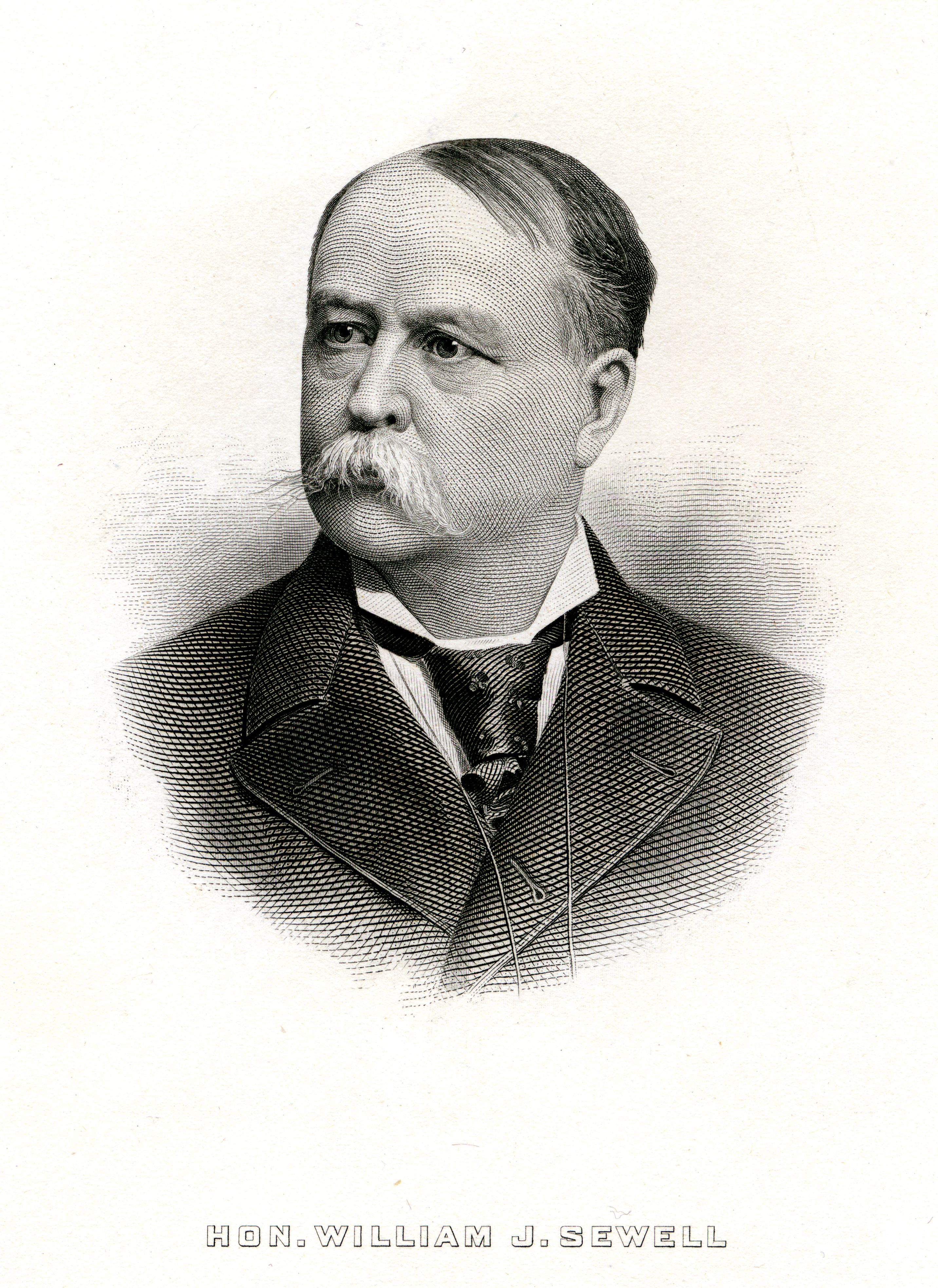 Bureau of Engraving and Printing engraved portrait of William J. Sewell.